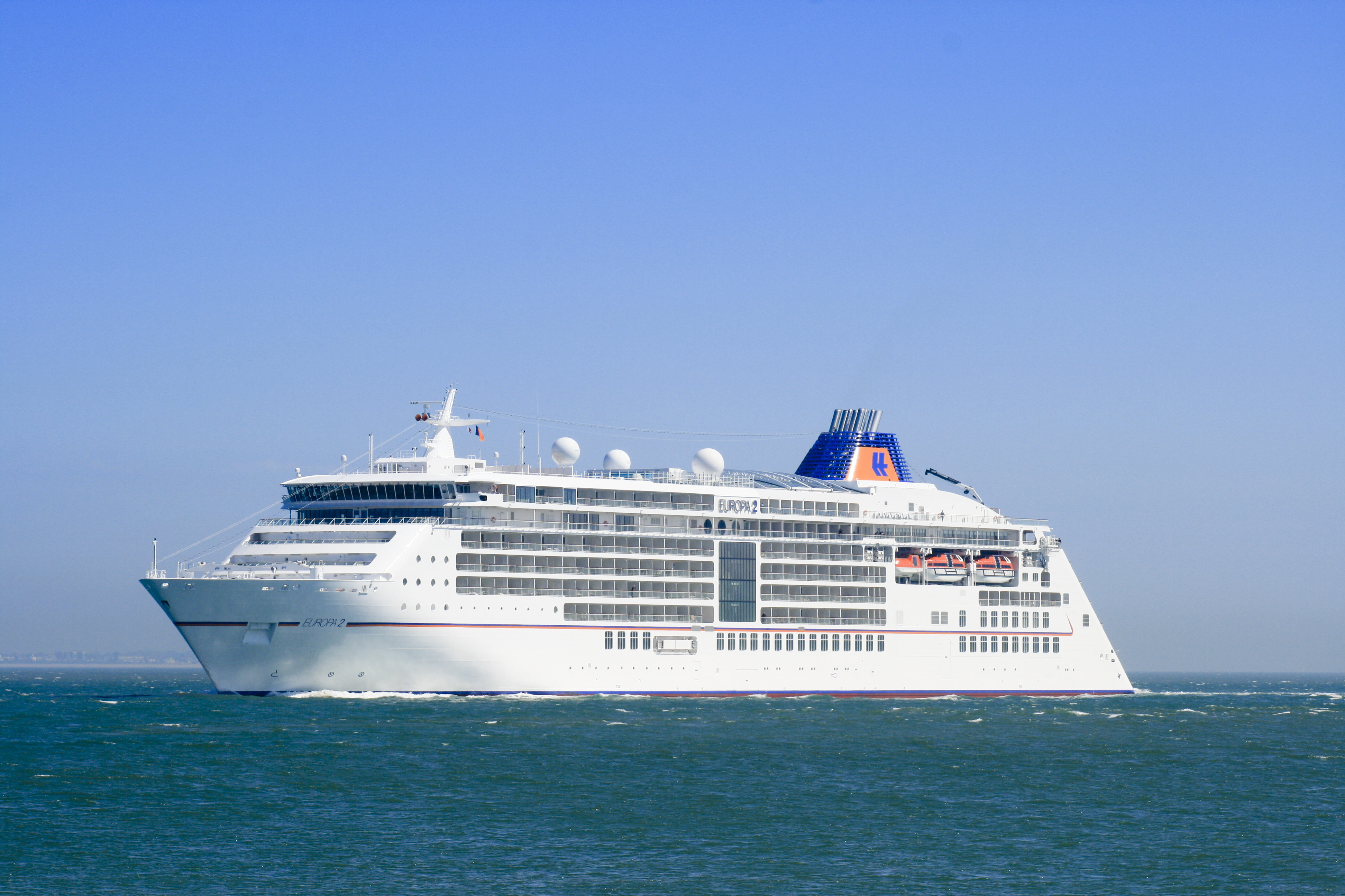 Hapag Lloyd cruise ship Europa 2 passing Black Jack buoy at the entrance to Southampton Water, while inbound to Southampton on 7 May 2013 on a crew shakedown voyage prior to her maiden sailing from Hamburg on 10 May 2013. Wikipedia editors are reminded that the copyright remains with the photographer, and that the terms of the Creative Commons (CC), Attribution (BY), Share Alike (SA) CC-BY-SA-3.0 that allow editors to reuse this image apply to Wikipedia editors also, as they do to other re-users of this image. Breaches of the licence terms are not only unlawful, but are also antisocial, in that breaches discourage photographers from making their images freely available to everyone without payment. Wikipedia re-users are also reminded of the license terms that derivatives of this image should not imply that the adaptation is endorsed or approved by the author or copyright holder. Neither should derivatives be presented as the creation of the author or copyright holder, while clearly stating that the adaptation is a derivative of the original.